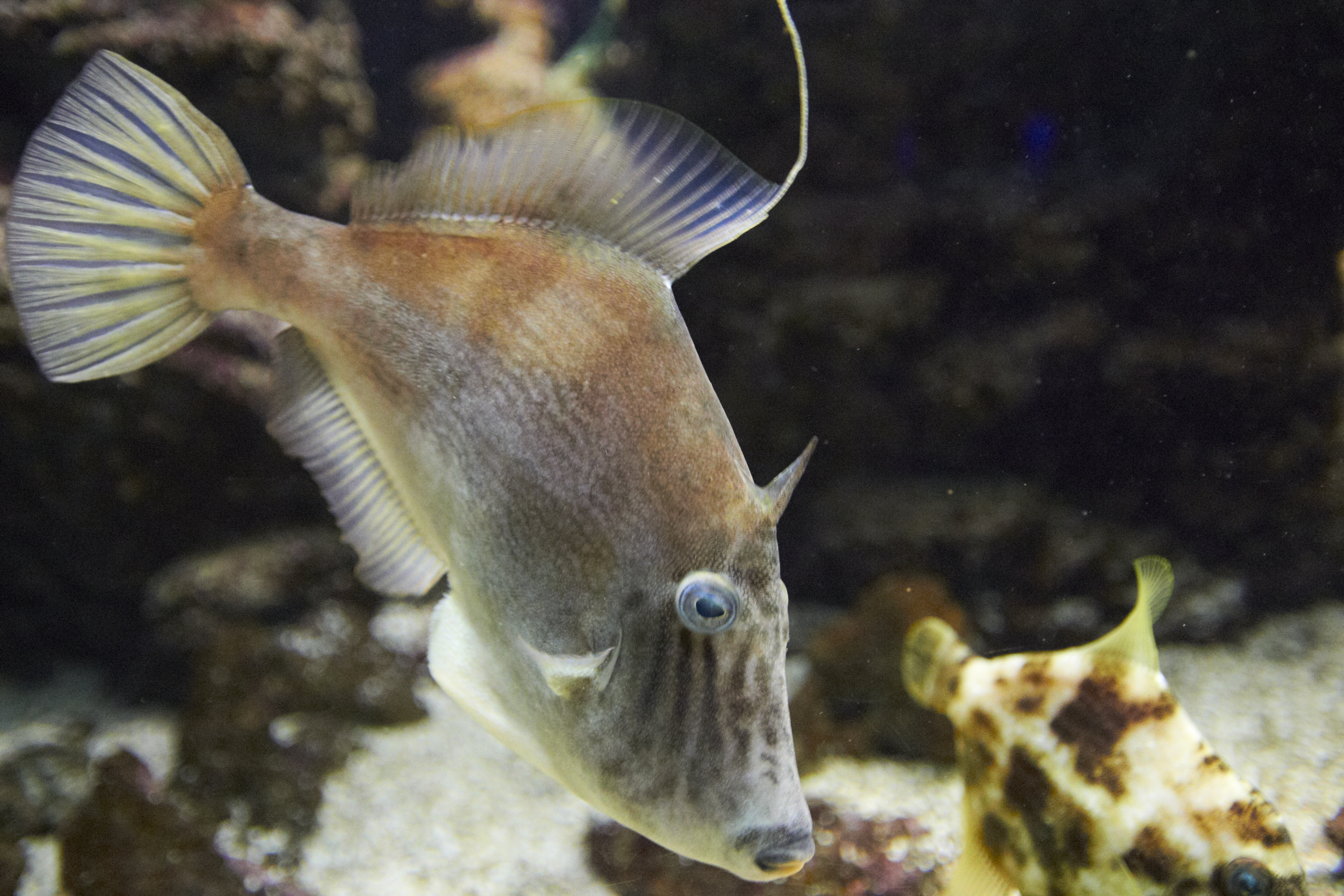 Stephanolepis sp.